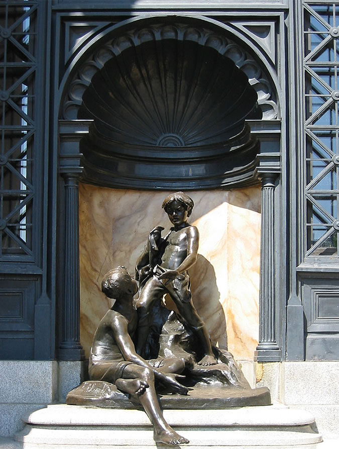 "Les petits Baigneurs", 1915 bronze by Alfred Laliberté (restored 1992), at the entrance to the Maisonneuve Public Bath (1916), 1875-1877, Morgan Avenue, Borough Mercier-Hochelaga-Maisonneuve, Montreal, Quebec, Canada.